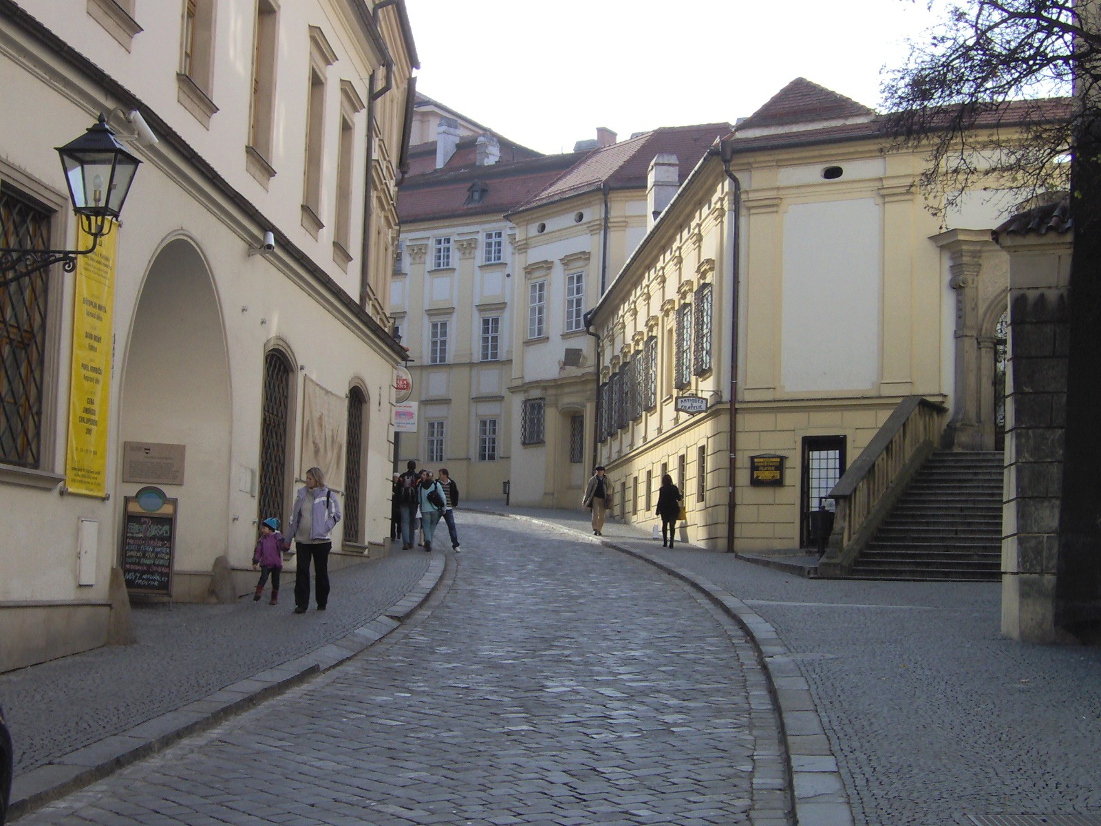 Dominikánská street Česky: Dominikánská ulice, zde do roku 1942 jezdily tramvaje